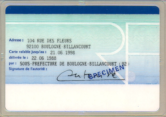 French Identity card specimen 1988–1994 similar to the modern identity card (1994–).